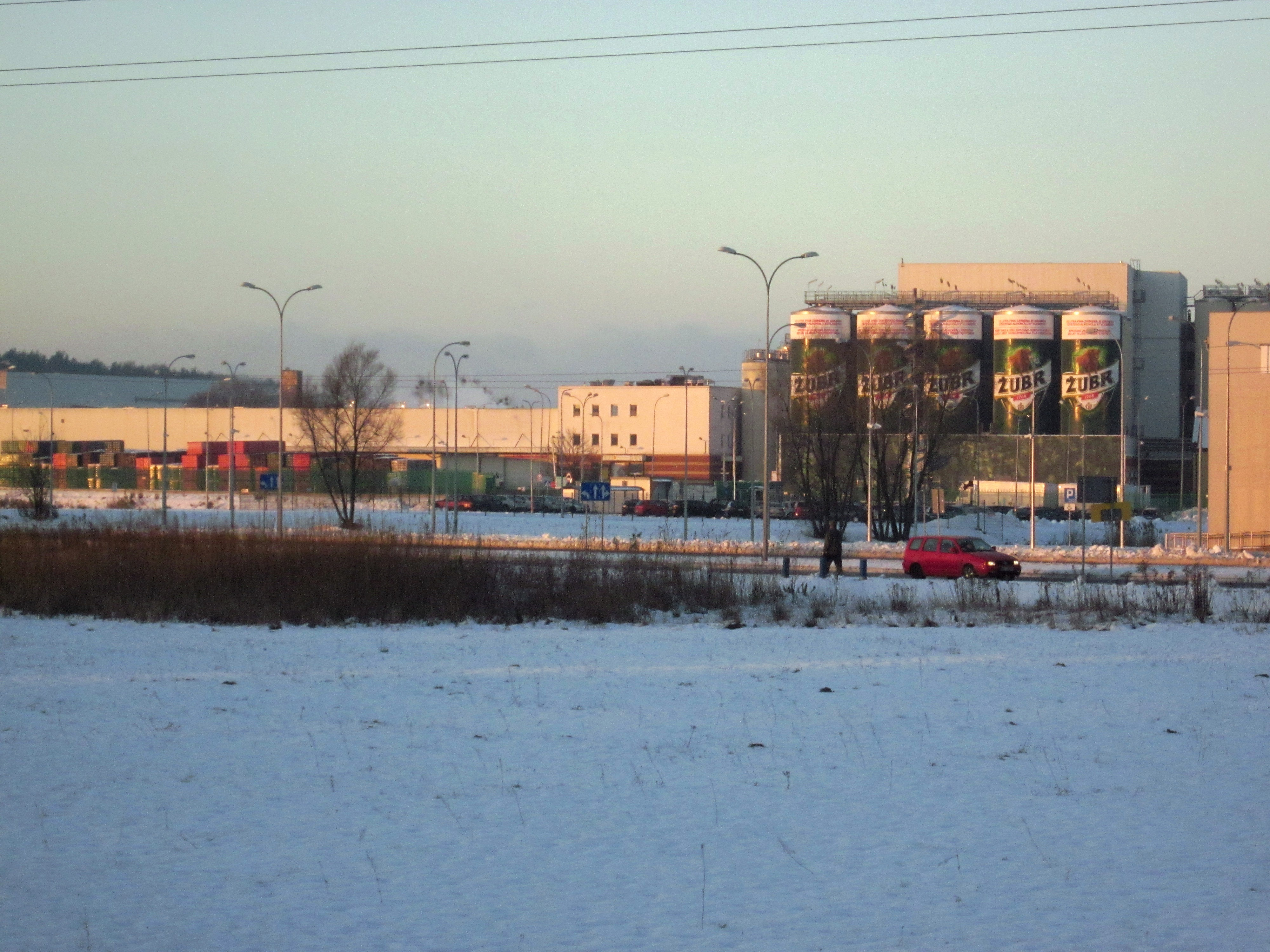 Dojlidy Brewery. Białystok, 28 Dojlidy Fabryczne street